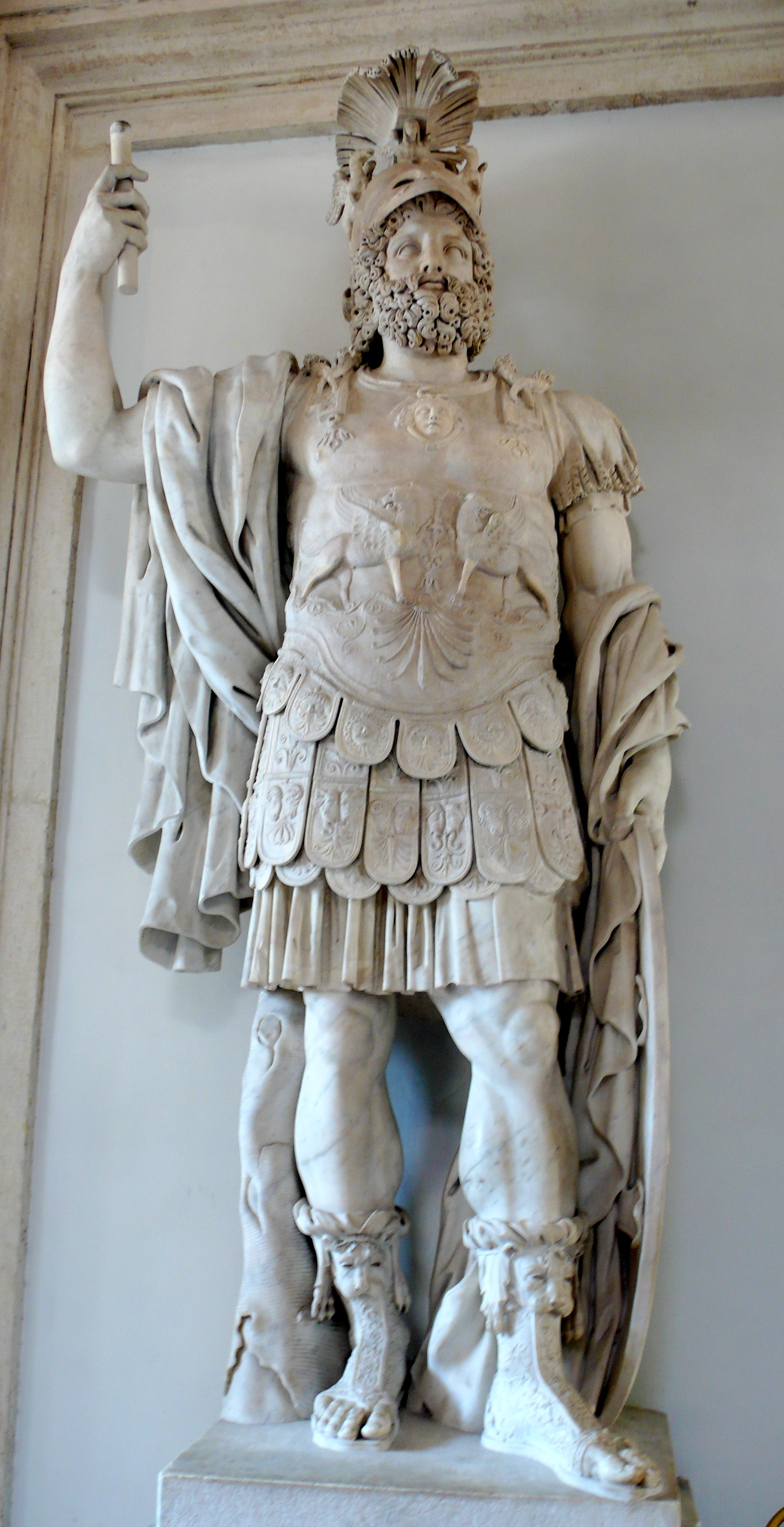 Marble statue of Mars: "Pyrrhus", dated at I sec. A.D. Hight: cm 360. It was found in the Nerva's Forum, in Rome, and it's now placed in the atrium of Capitoline Museums in Rome.[1] ↑ Colossal statue of Mark Matts the Great: "Pyrrhus". Retrieved on 04-03-2009.